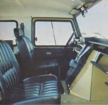 UMM Counil4x4 interior